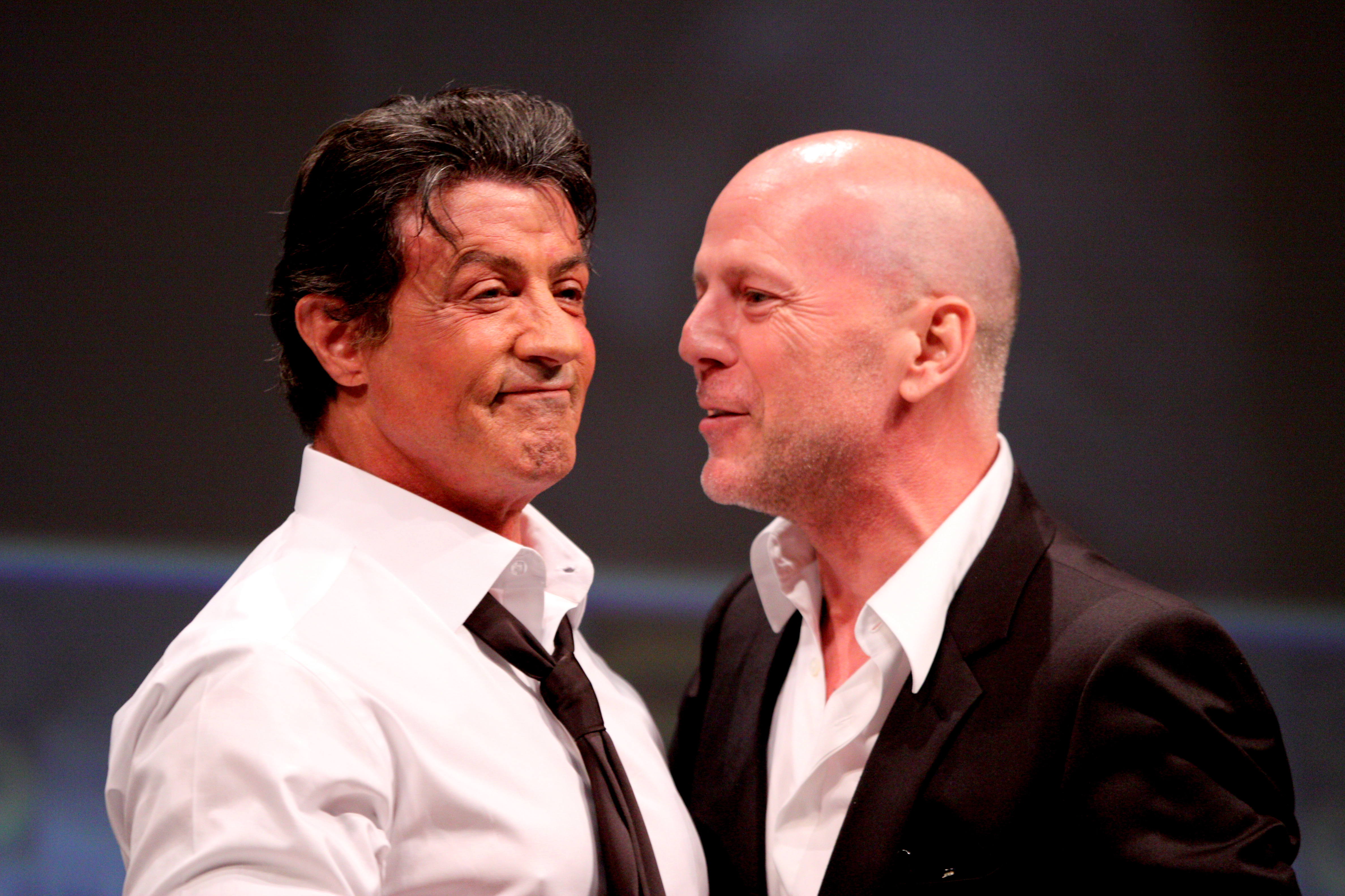 Sylvester Stallone & Bruce Willis at the Comic-Con 2010.